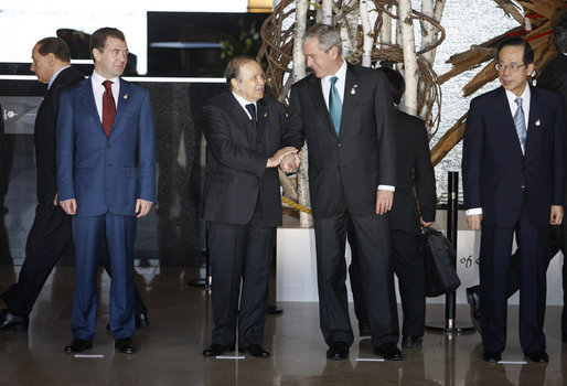 President George W. Bush and President Abdelaziz Bouteflika exchange handshakes at the Windsor Hotel Toya Resort and Spa in Tōyako Town, Abuta District, Hokkaidō on July 7, 2008. With them are President Dmitriy Medvedev, left, and Prime Minister Yasuo Fukuda, right.